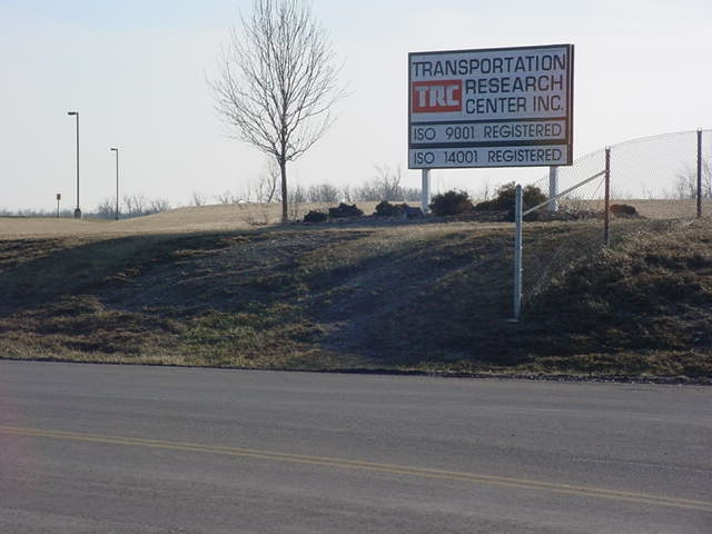 Entrance to the Transportation Research Center in Perry Township, Logan County, Ohio, United States. This facility, whose ownership is shared between the US government and Honda, occupies a large area of land in Perry Township.